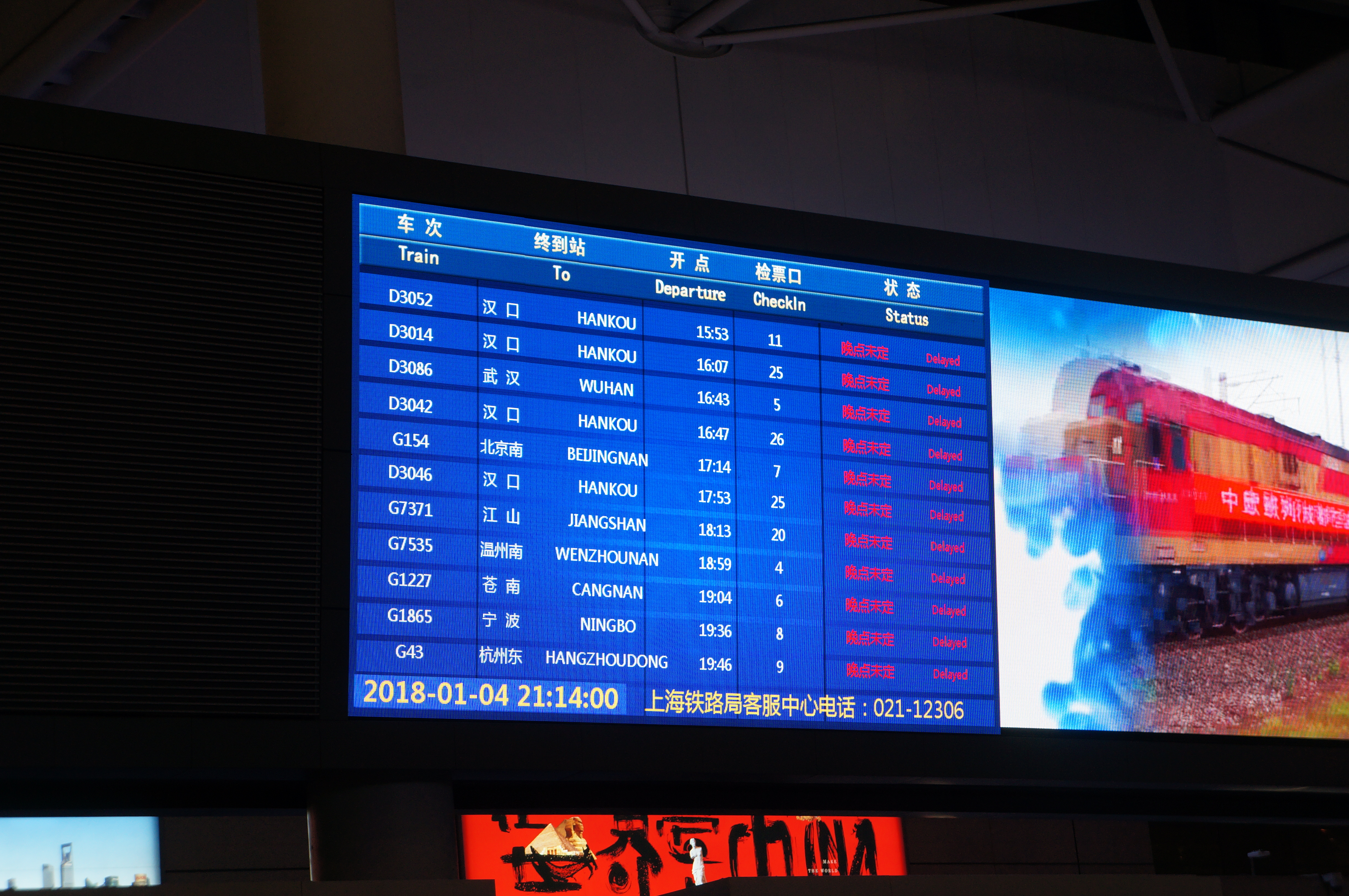 20180104 Information board at Shanghai Hongqiao Station. Full delay-status train due to heavy snow in (North area of) east China